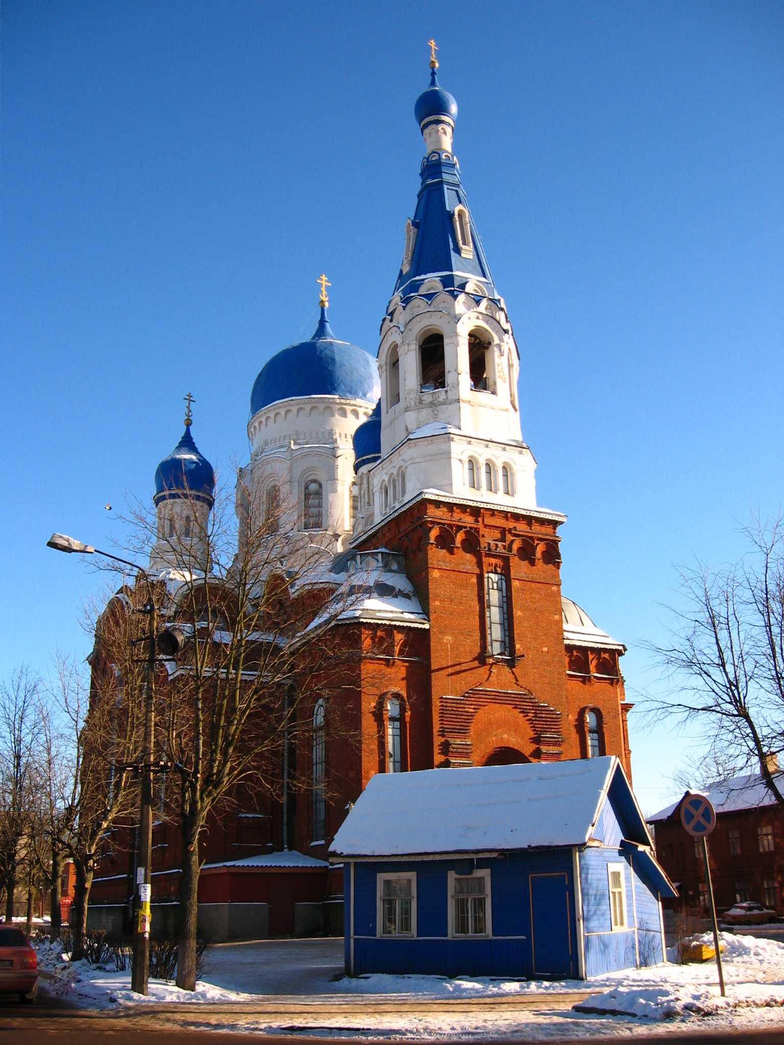 Pokrovsky sobor in Gatchina